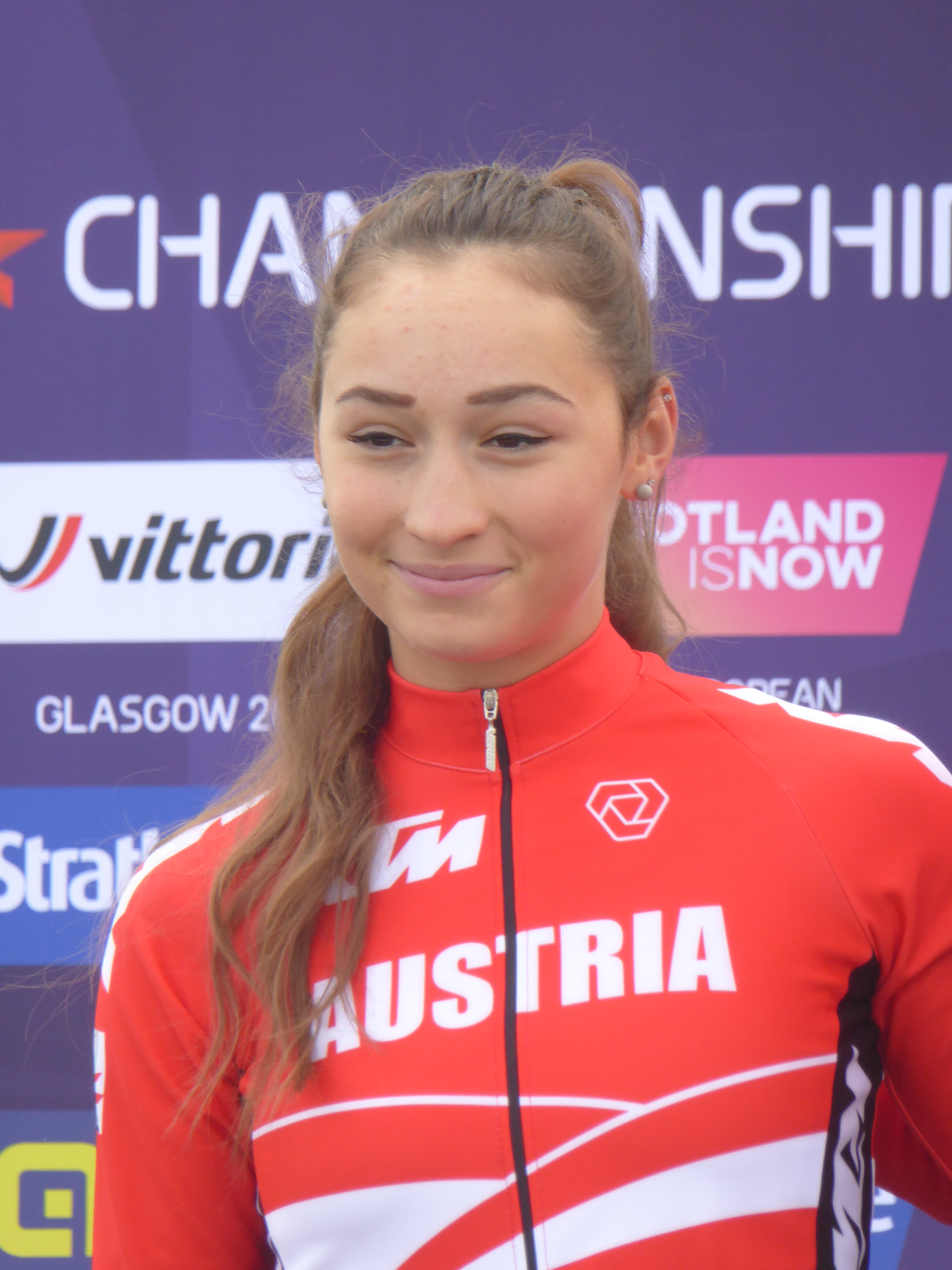 Kathrin Schweinberger (Austria), prior to the women's road race at the 2018 UEC European Road Cycling Championships in Glasgow.